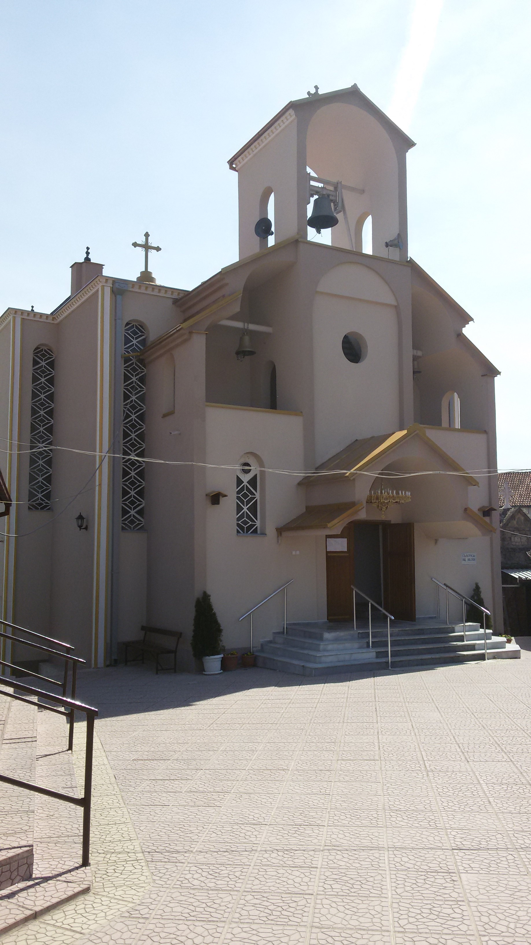 Sts. 15 Martyrs of Tiveriopolis